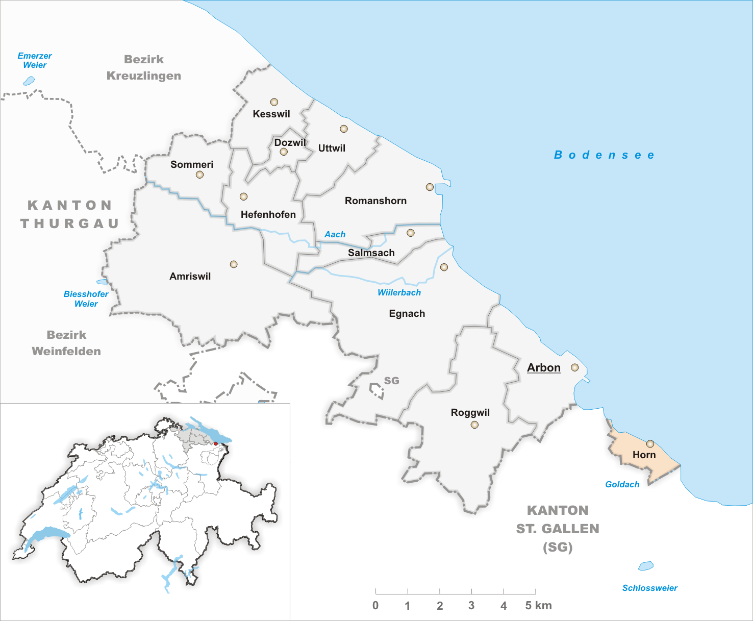 Municipality Horn